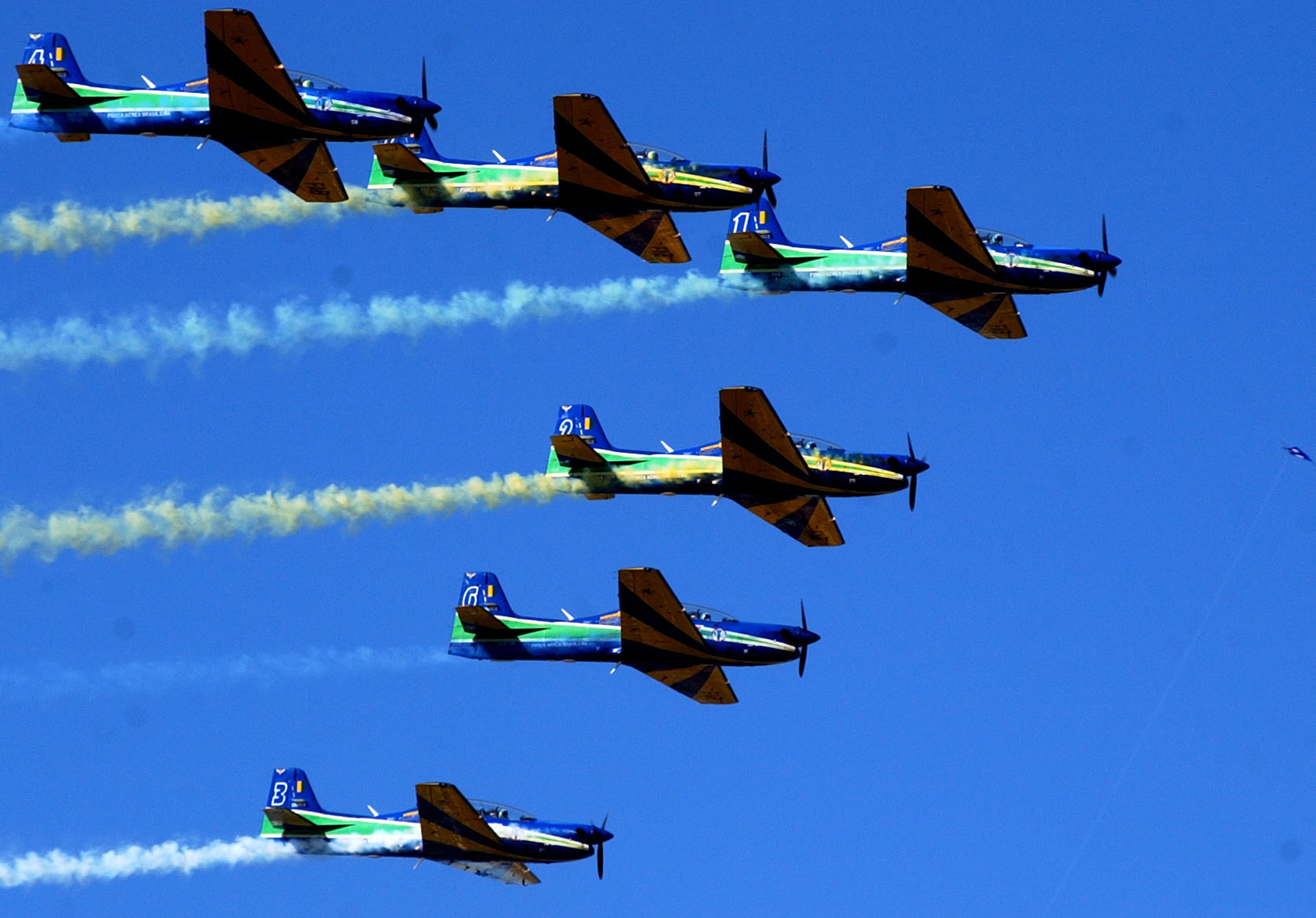 Esquadrilha da Fumaça (Brazilian Air Force Smoke squadron) demonstration at Brasília during Brazilian Independence Day celebrations.